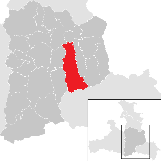 District Sankt Johann im Pongau